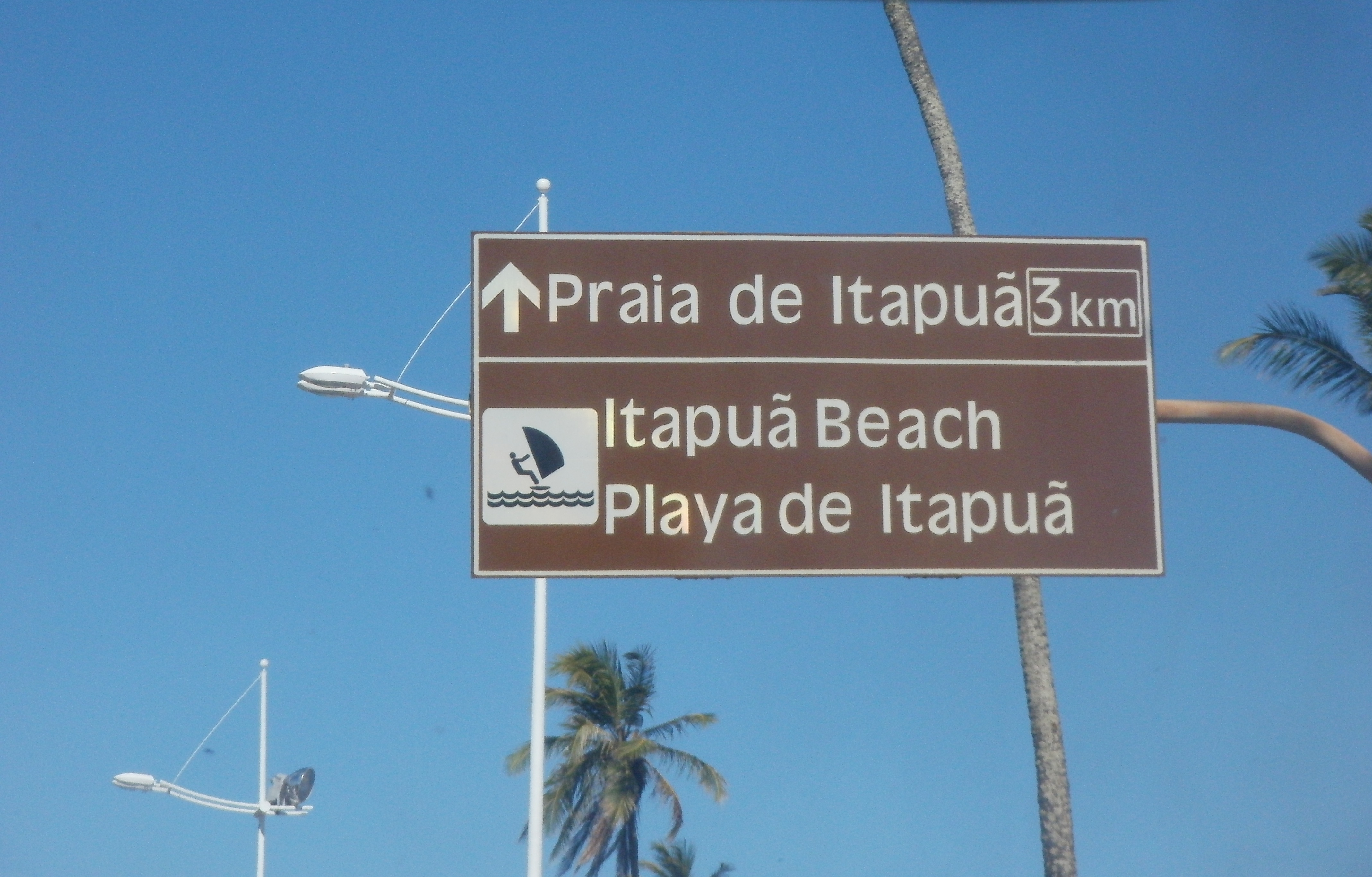 Sign showing the way of Itapuã's Beach, Salvador, Bahia, Brazil.